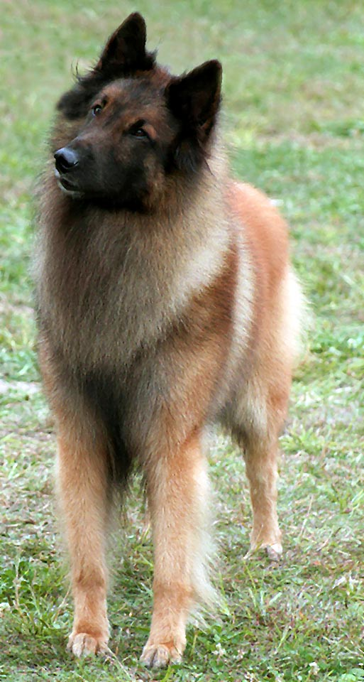 A Belgian Tervuren (Dog) named Char-Ma’s The Chosen One (DN 119561/01) a 3 1/2 year old male (DOB 06-03-05). The picture illustrates numerous faults in the breed: 1) Missing Blackening for a mature male 2) Missing or poor masking for a Belgian Tervuren